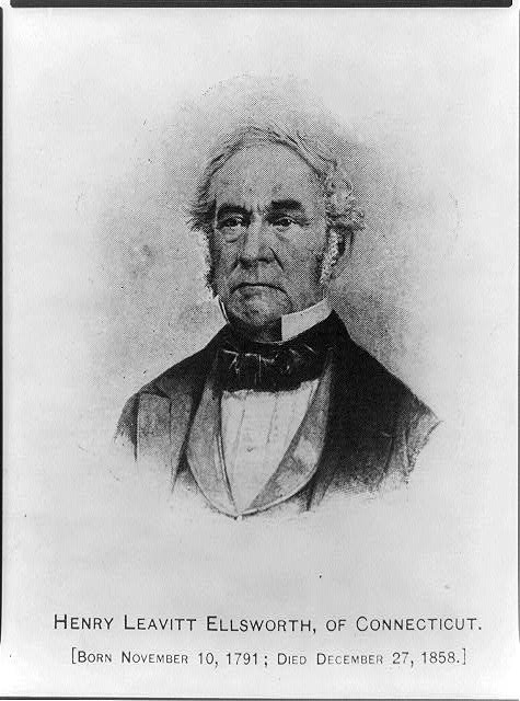 Henry Leavitt Ellsworth, founder of what became the United States Department of Agriculture, first Commissioner of the U.S. Patent Office. Illustration accompanying Ellsworth's entry in the United States Department of Agriculture Yearbook, 1902